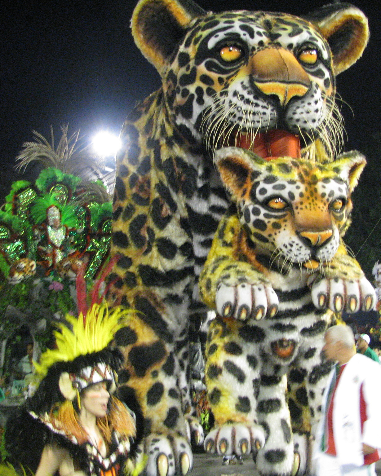 Grand-Rio-48.JPG